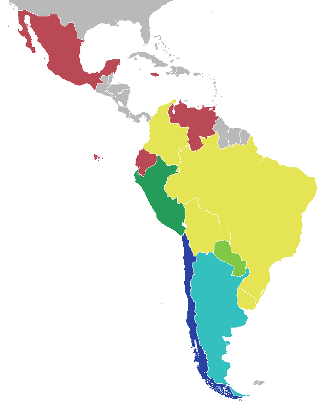 Results of the 2015 Copa America